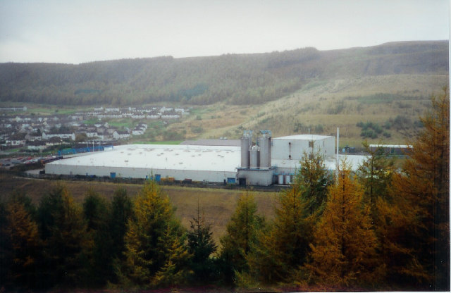 Cwm Rhondda. Looking west over the forestry plantation on the slopes of Mynydd y Ffeldau, the modern industrial unit contrasts with the landscaped spoil heaps, the remnants of the previous industry in this valley. The town of Maerdy is at left